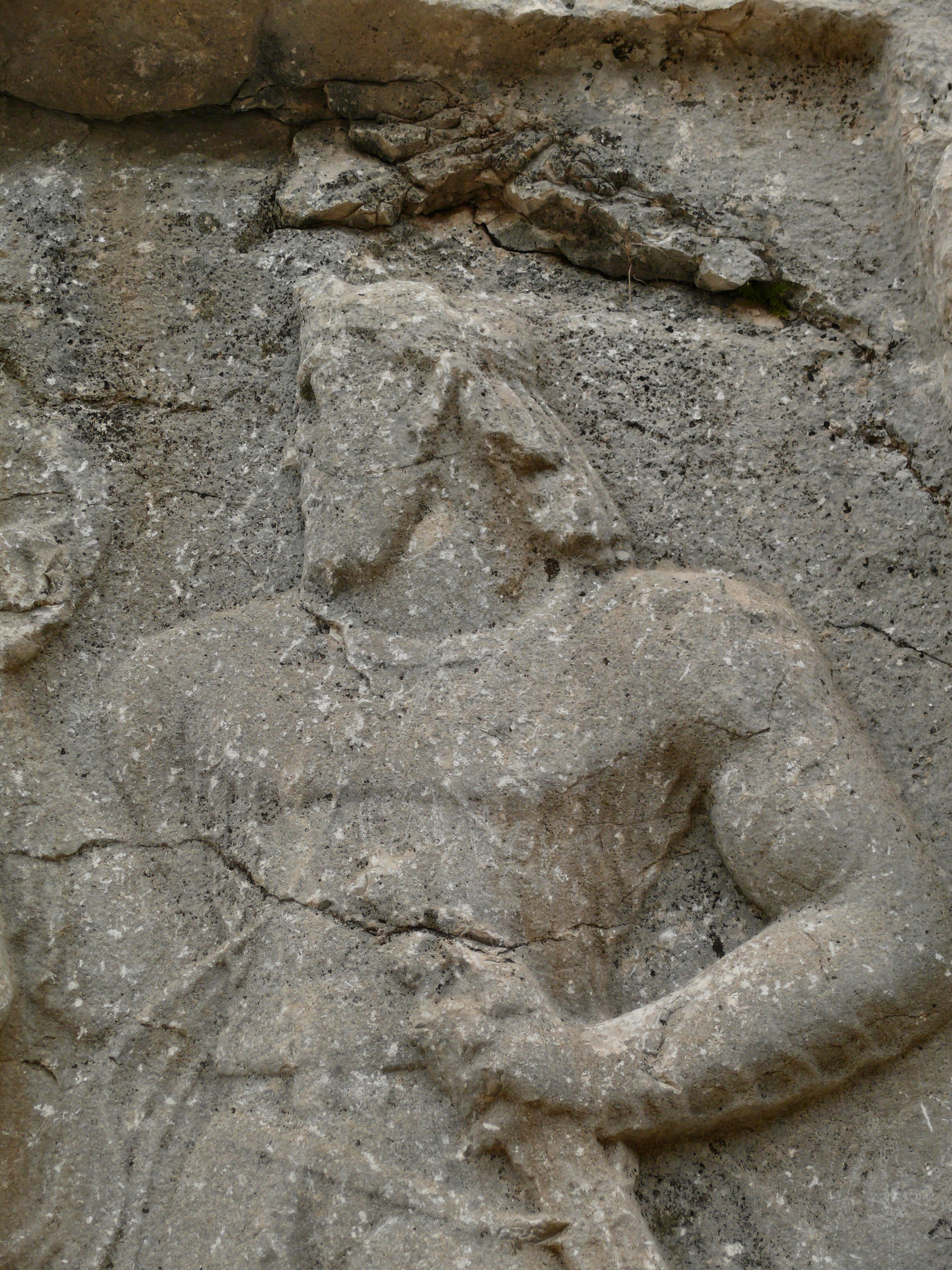 Detailed view of The prince, futur king Bahram III on the Sasanian rock relief at Sarab-e Qandil, Vicinity of Kazerun, Fars province, Iran, May 2009.